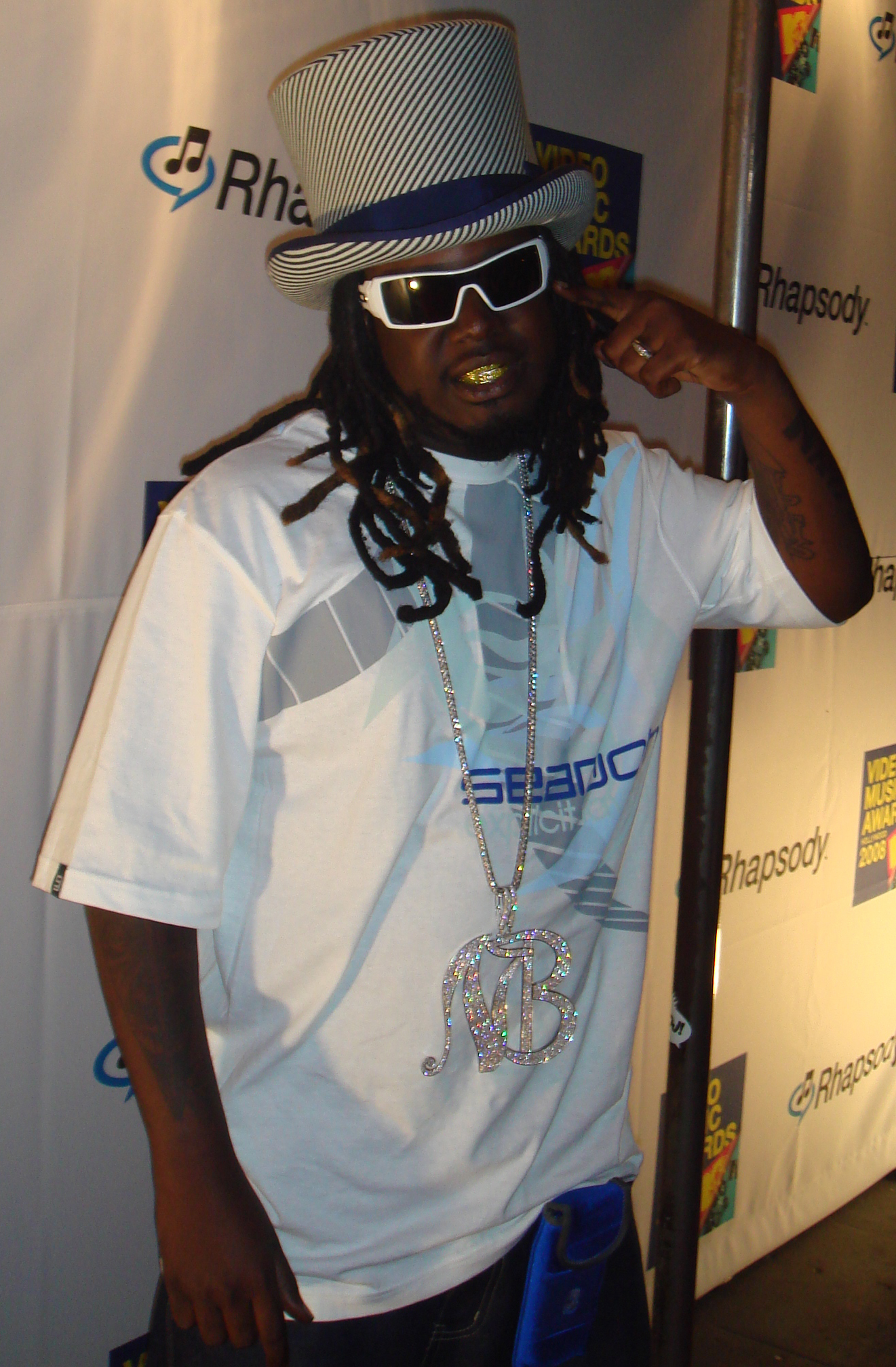 T-Pain at a VMA pre-party.